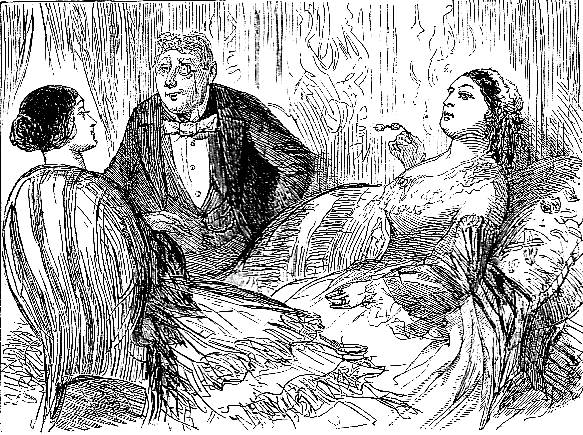 Little Dorrit, at Mr and Mrs Merdle's, Mrs Merdle, Mr Sparkler and Fanny